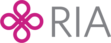 Ria Logo